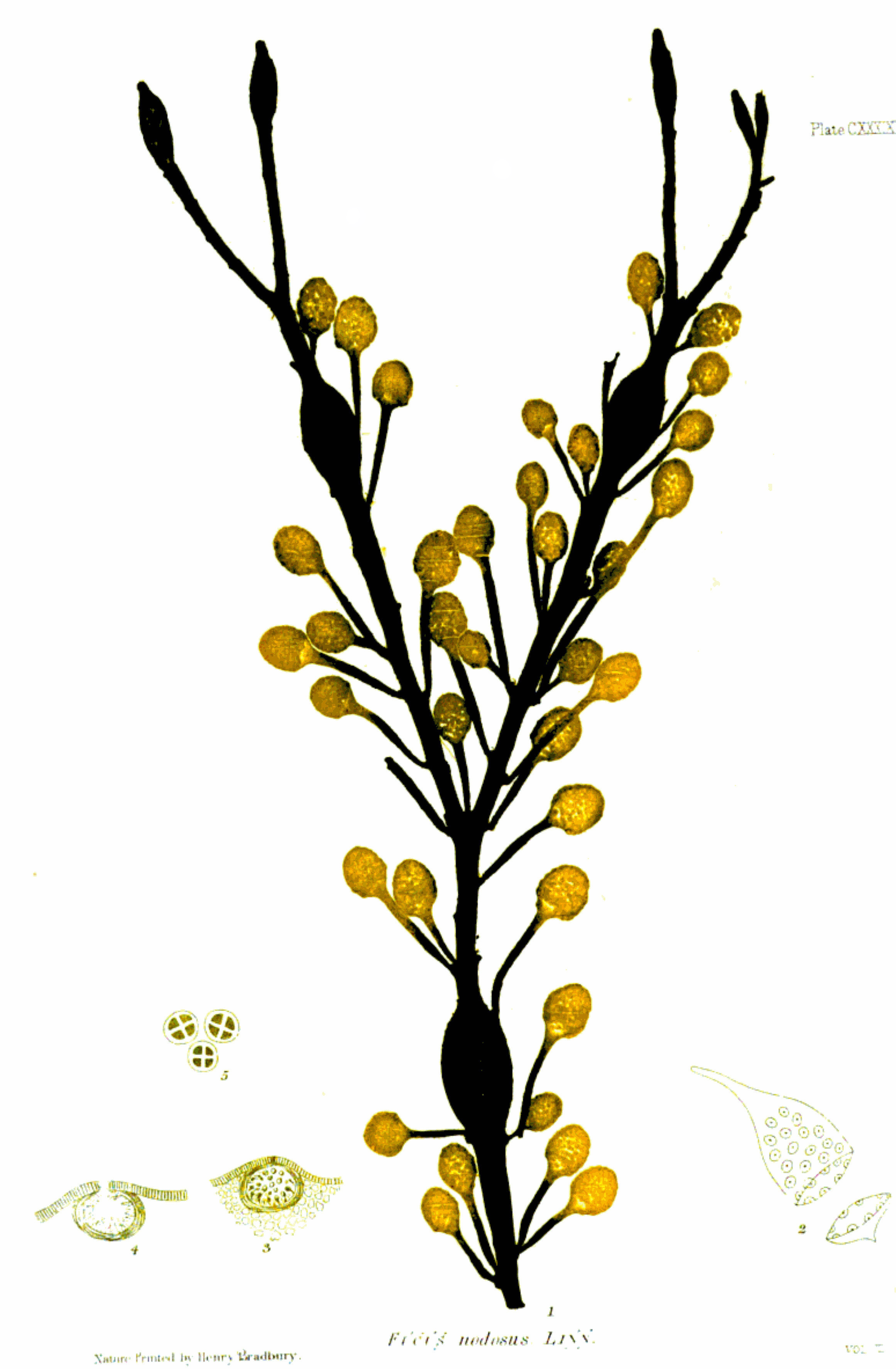 Plate of the brown algae Ascophyllum nodosum (formerly Fucus nodosus) using technique of nature-printing